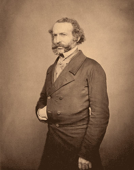 John Rae, explorer of the Arctic. Image online from [1] Subject has been deceased since 1893 so this image is certainly in the public domain.